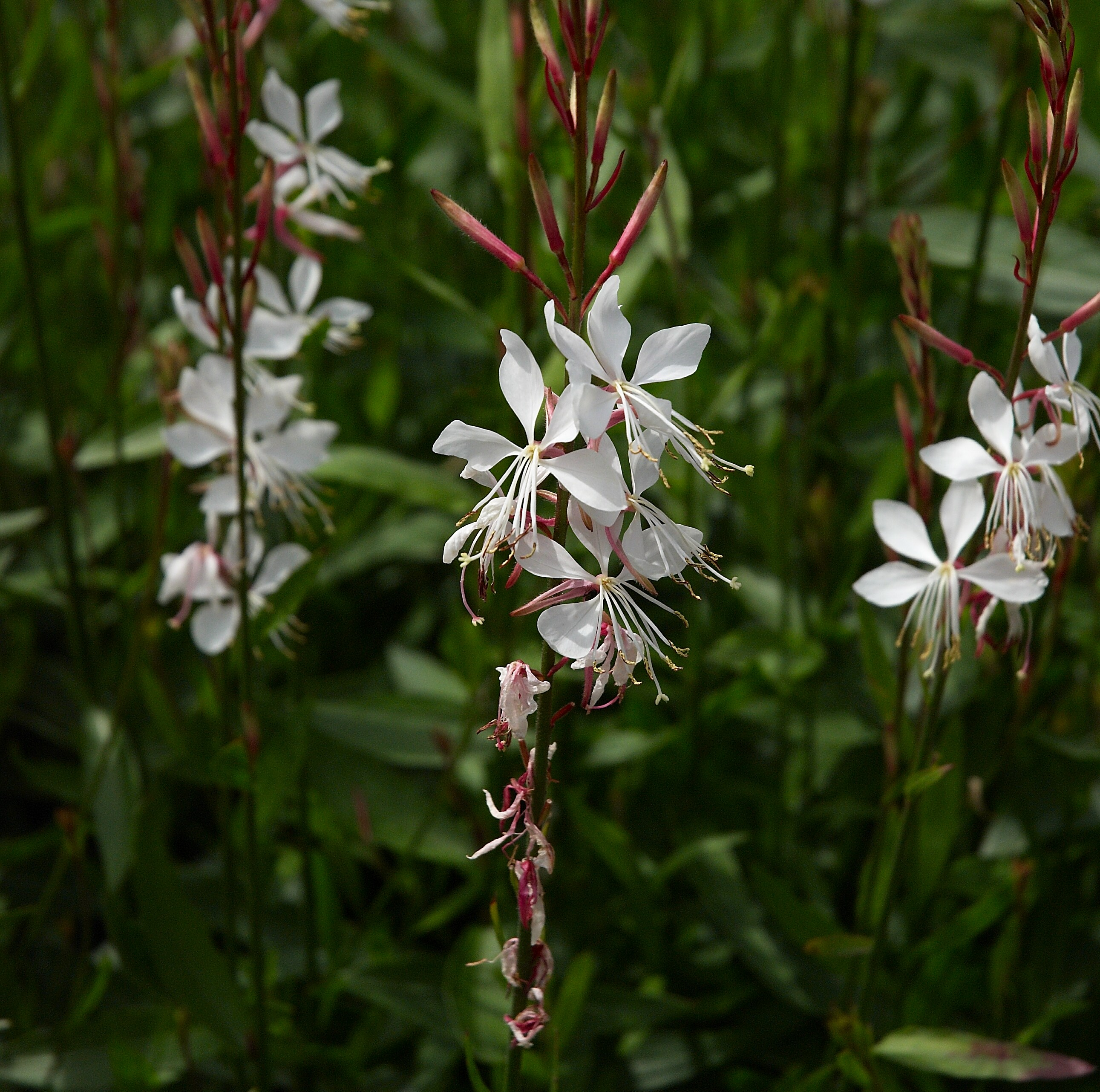 White gaura. Photo has been taken in Belgium